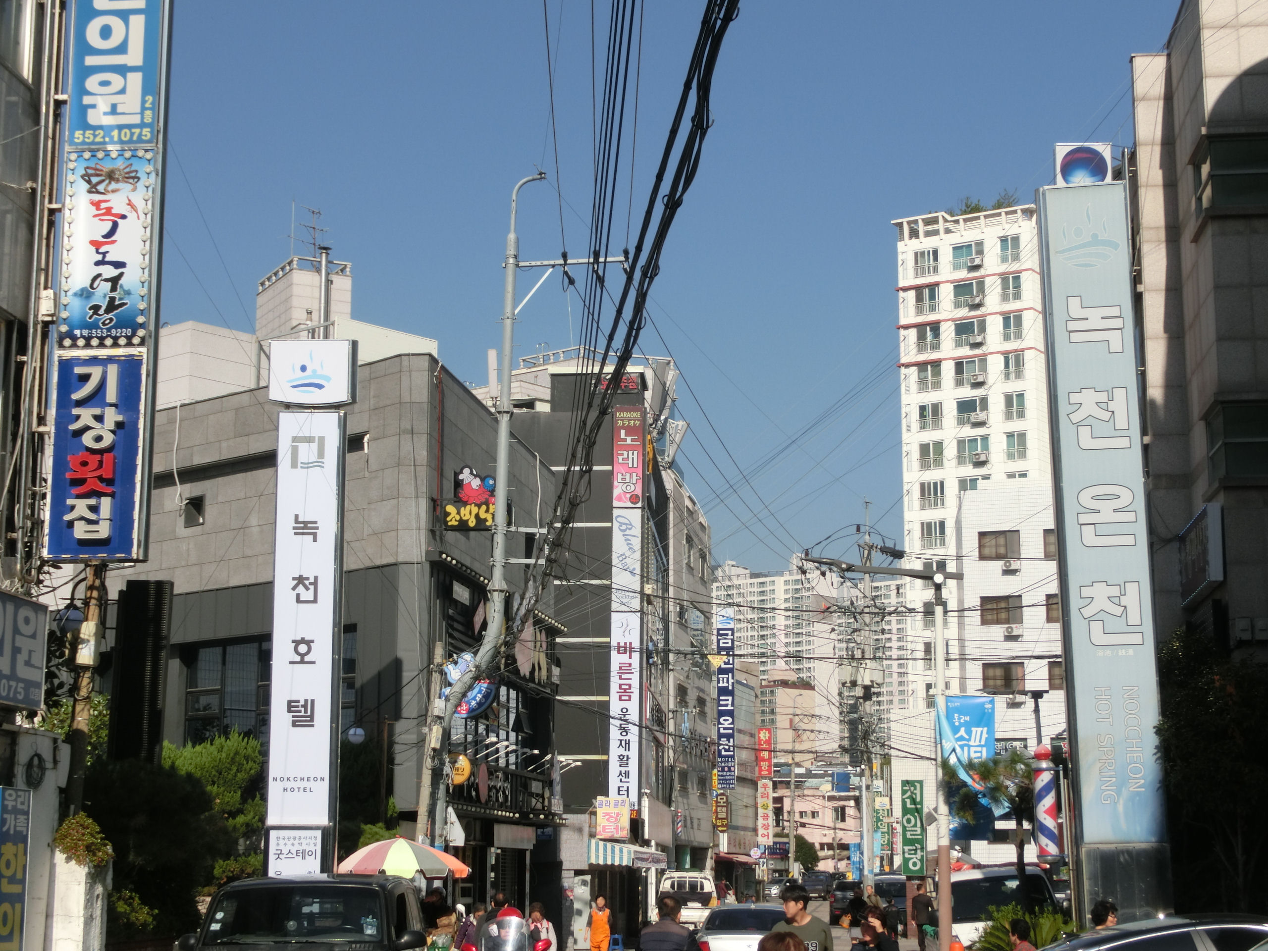 Dongnae Hot Spring